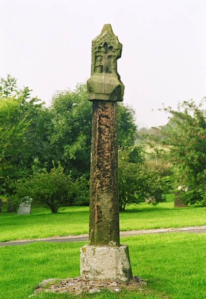 14th-century stone cross in St Michael's parish churchyard, Trelawnyd, Flintshire. The head portrays two crucifixion scenes.